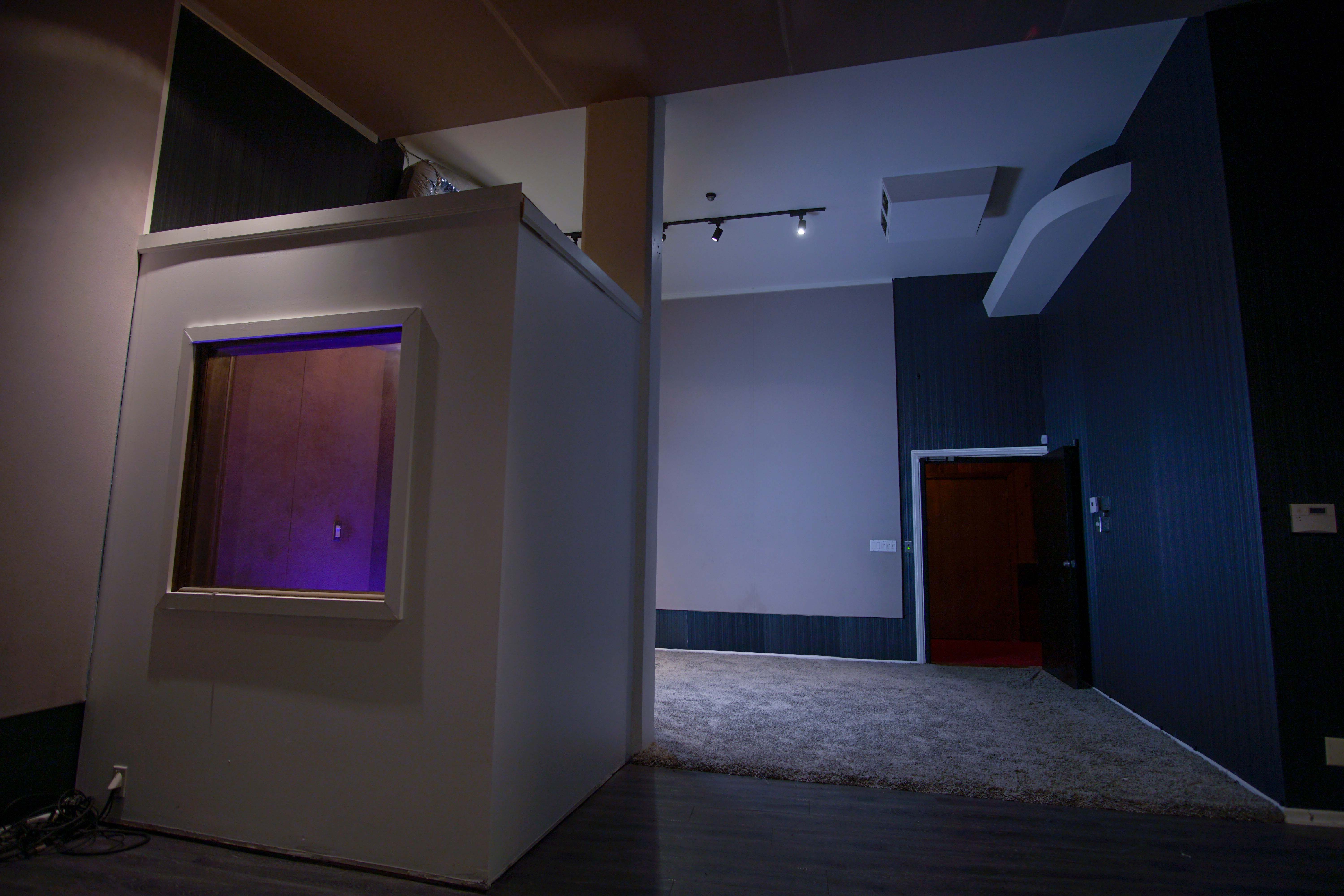 Studio C Currently Vacant